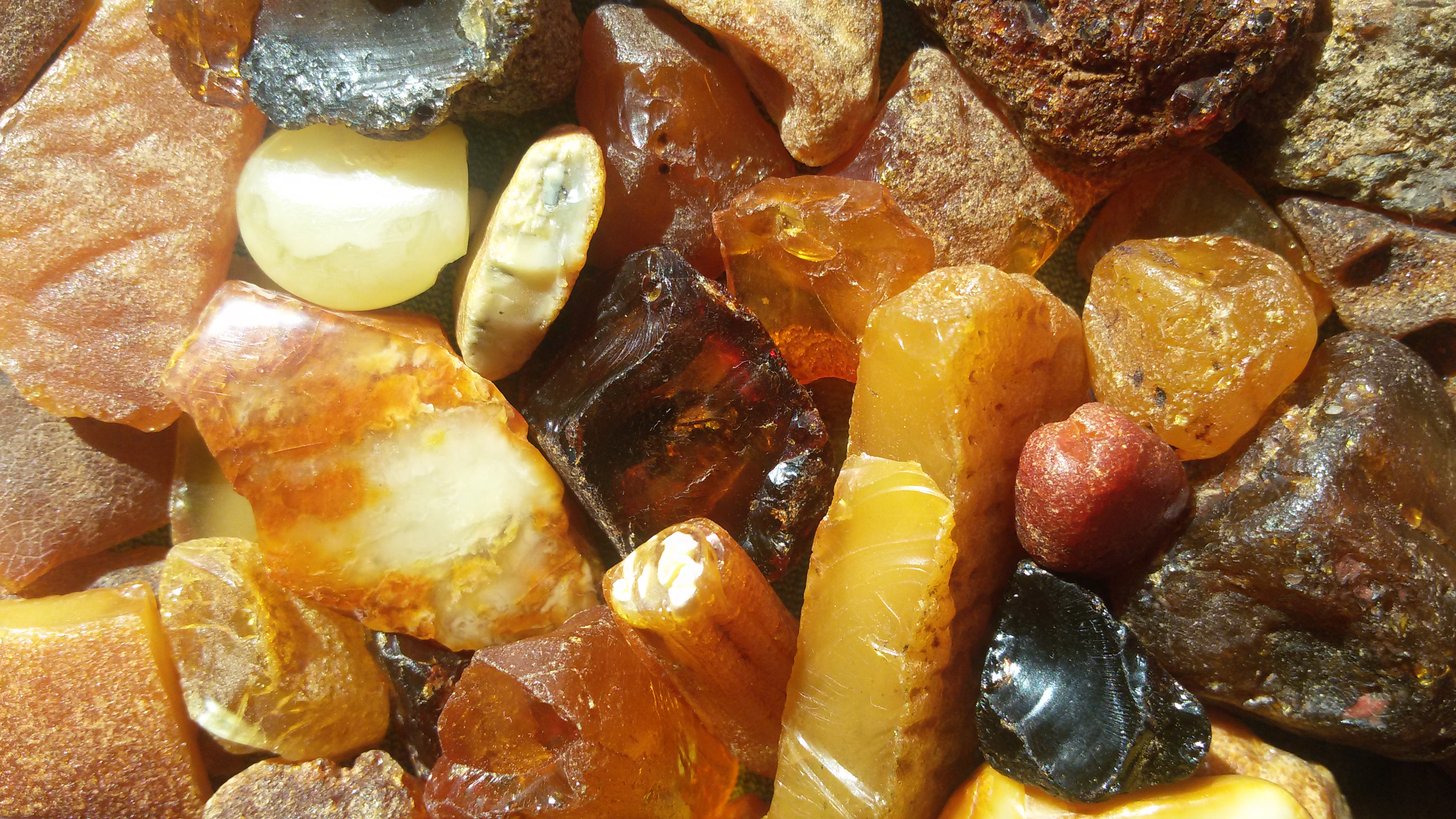 Baltic amber color variety. Aging amber. One stone is photoaging from white to brown color combination.